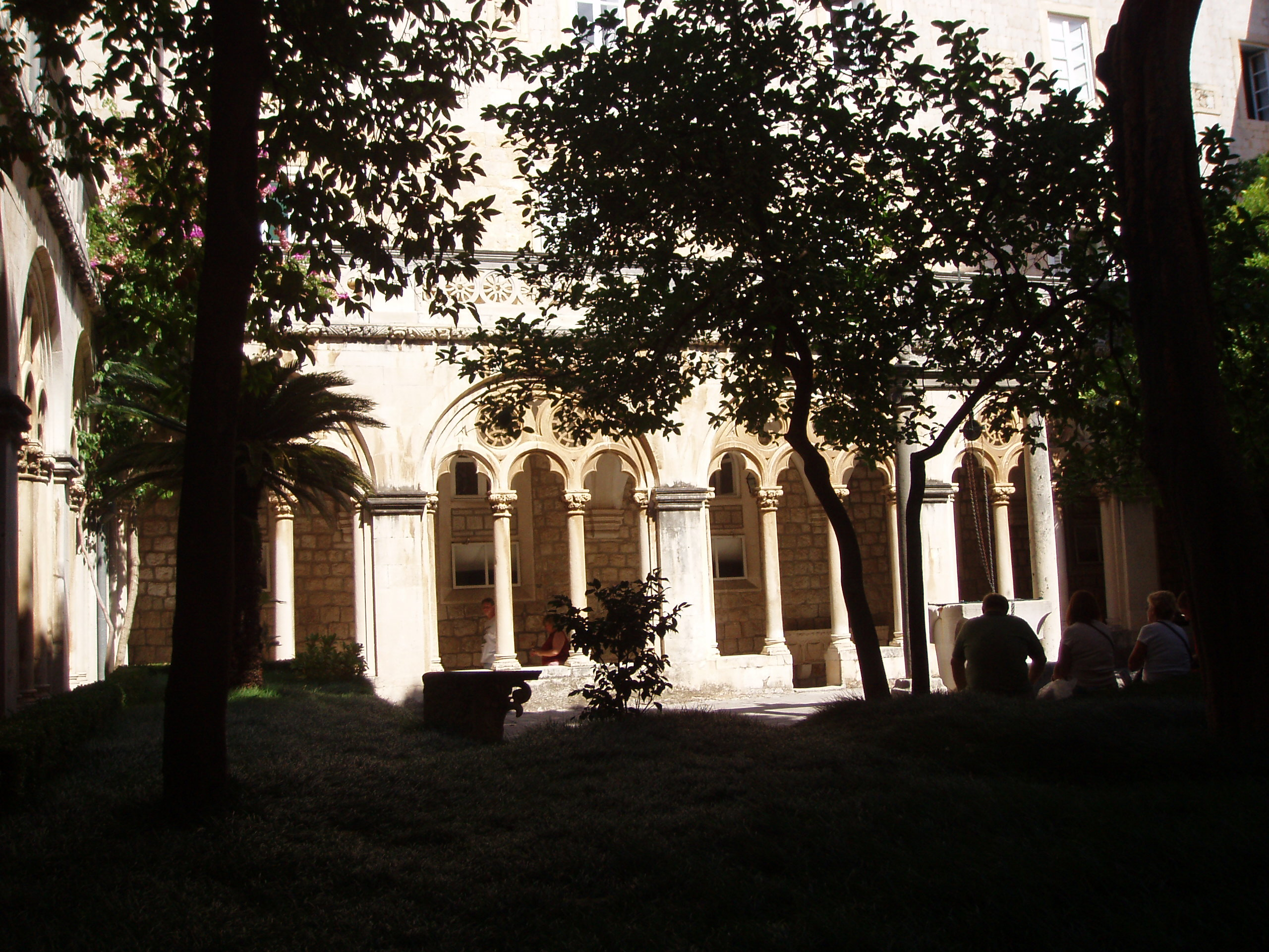 The courtyard of Dominican monastery in Dubrovnik